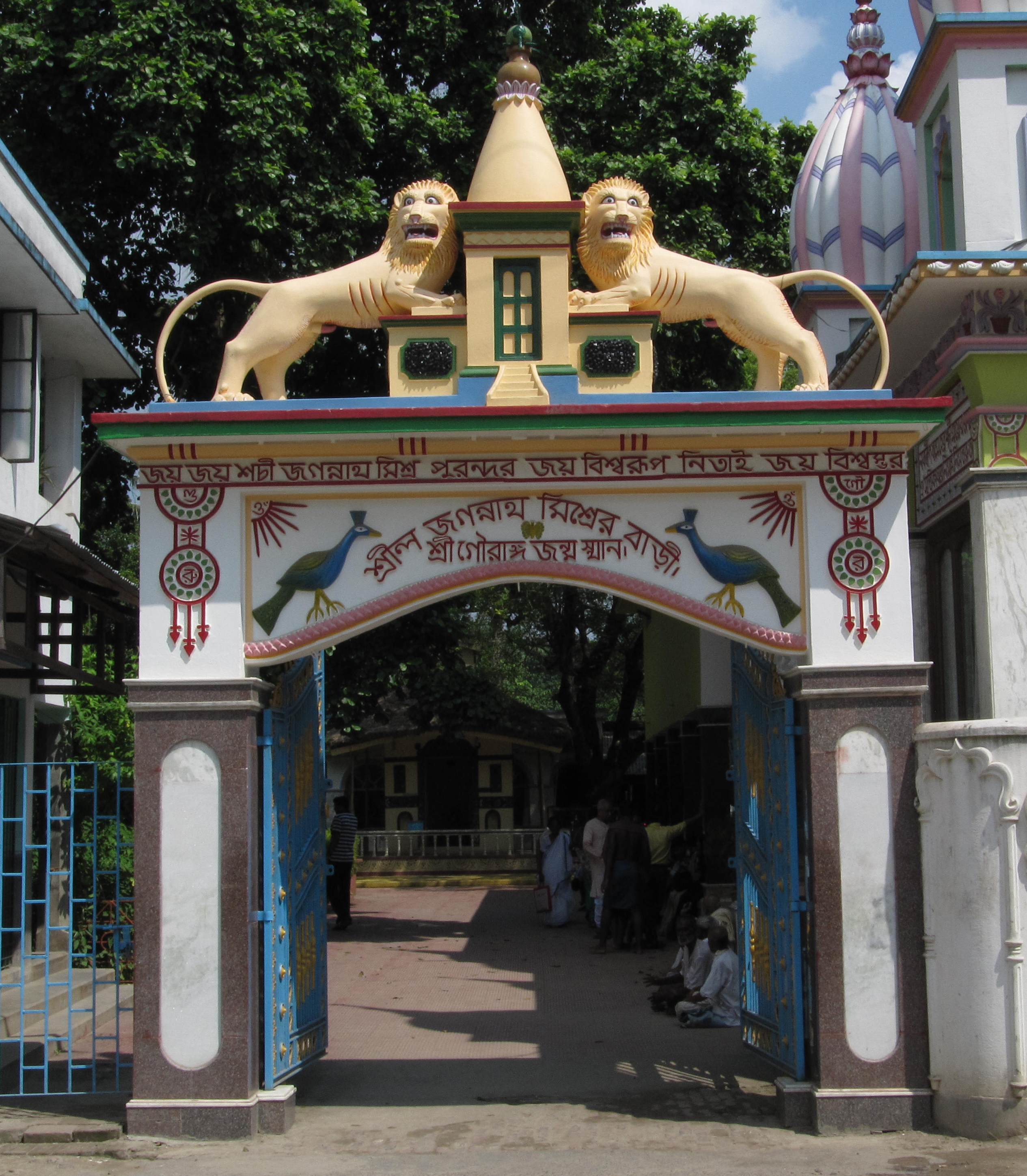 Claimed birth place of Chaitanya Mahaprabhu in Pracheen Mayapur area, Nabadwip, West Bengal